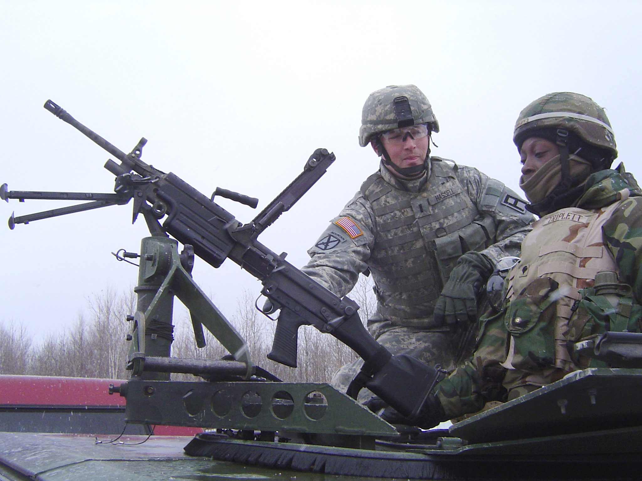 First Lt. James Hassell (left) of the U.S. Army's 174th Infantry Brigade explains the gunner's responsibilities to reservist Spc. Alisha Triplett during convoy operations training at Fort Drum, New York.